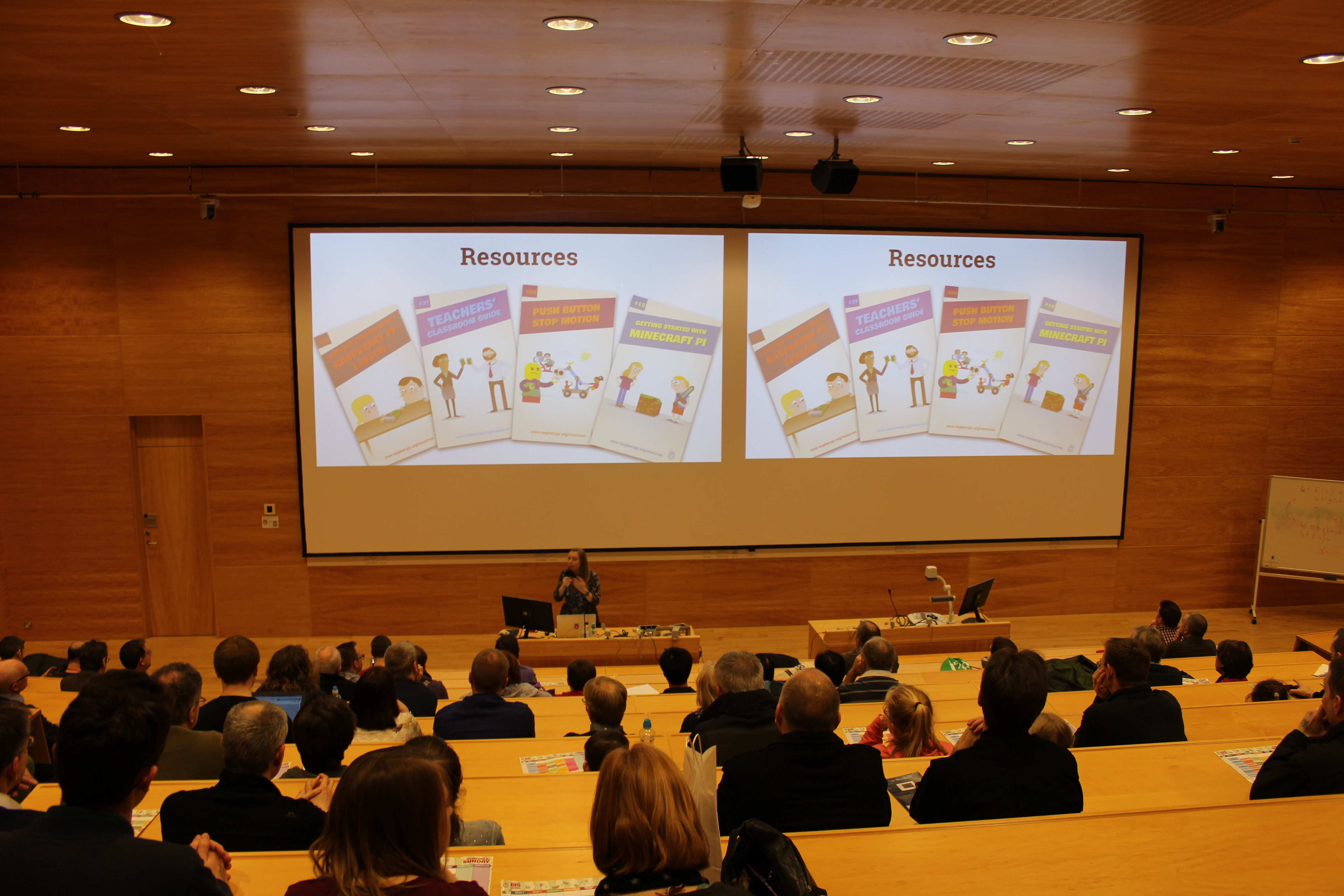 Carrie Anne Philbin speaking at the Raspberry Pi Big Brithday weekend February 2015 in the Cambridge Computer Lab